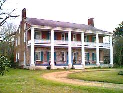 Took this picture while in Natchez, Mississippi at the Springfield Plantation